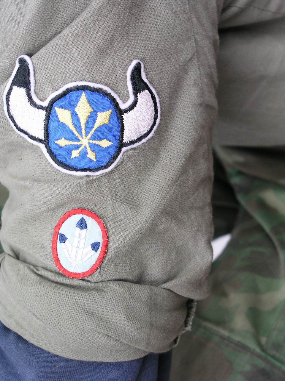 Three Eagle Feathers badge.